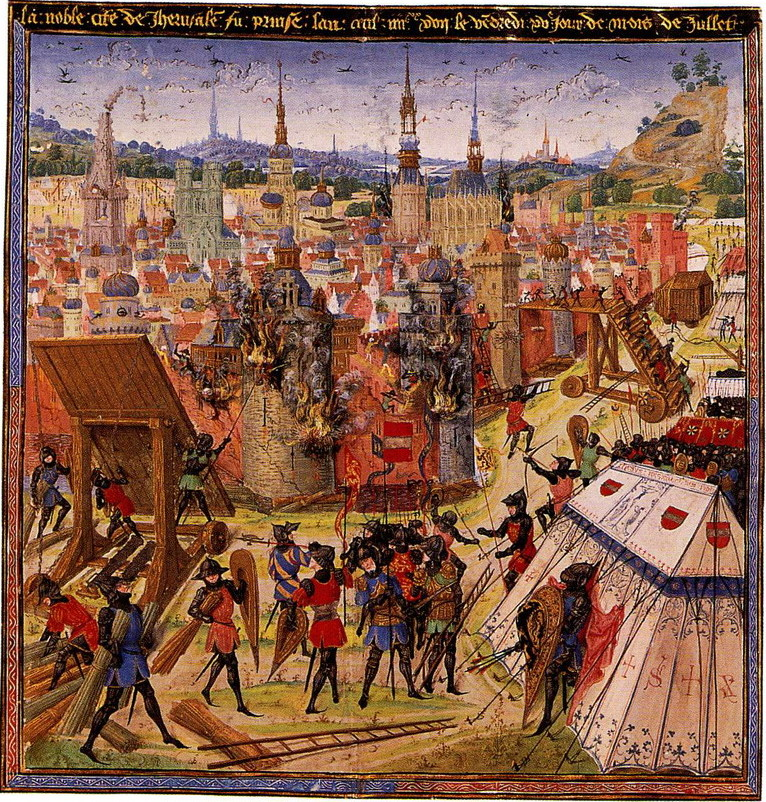 Capture of Jerusalem during the First Crusade, 1099. Unidentified late medieval (14th or 15th century?) illustration probably from Sébastien Mamerot, Les Passages d'oultre mer.